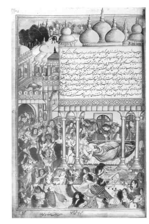 Ramayana